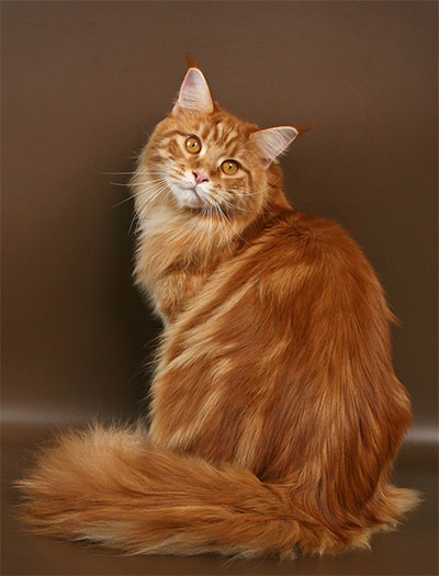 Мейн-кун